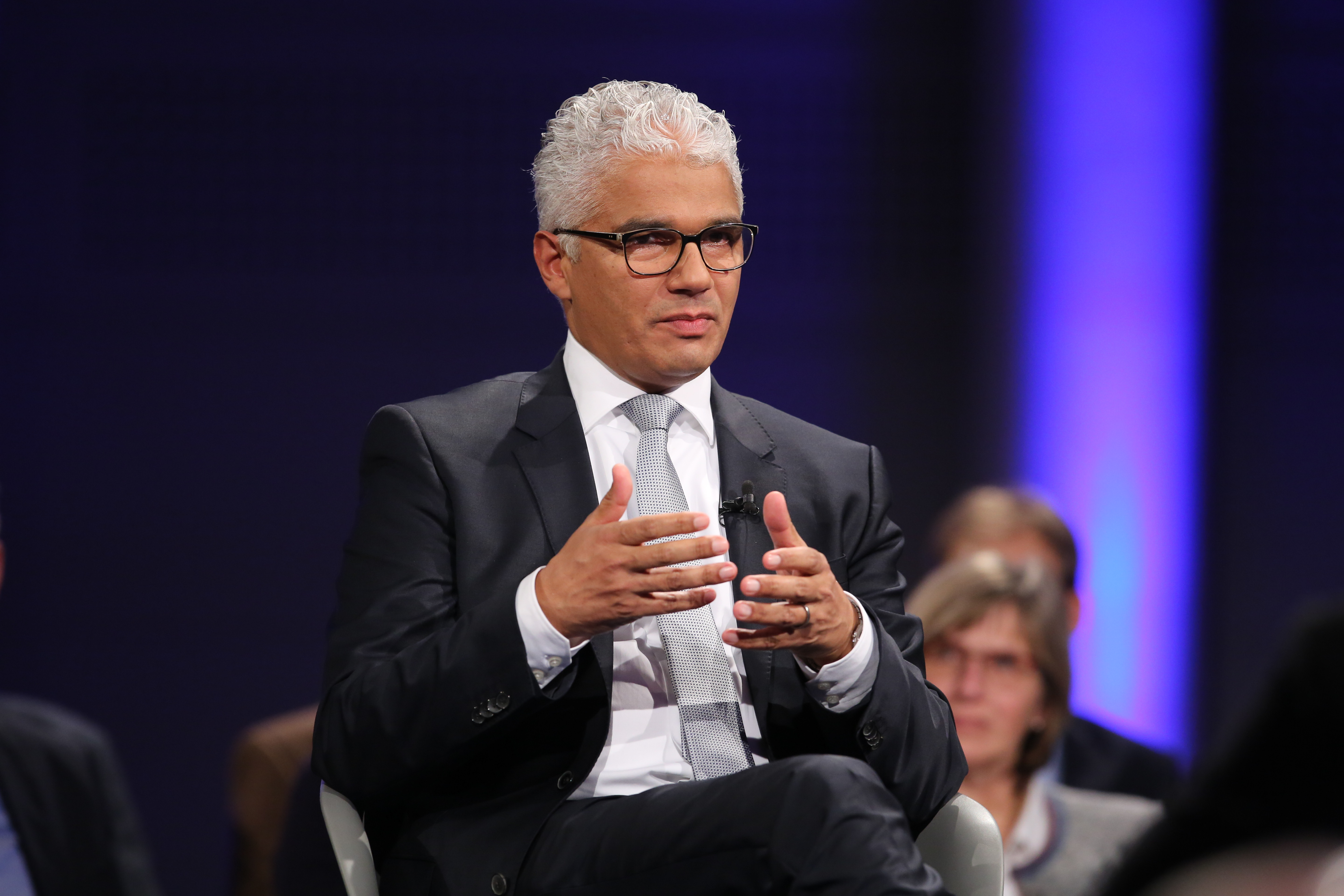 Ashok Alexander Sridharan, mayor of Bonn / Oberbürgermeister von Bonn.